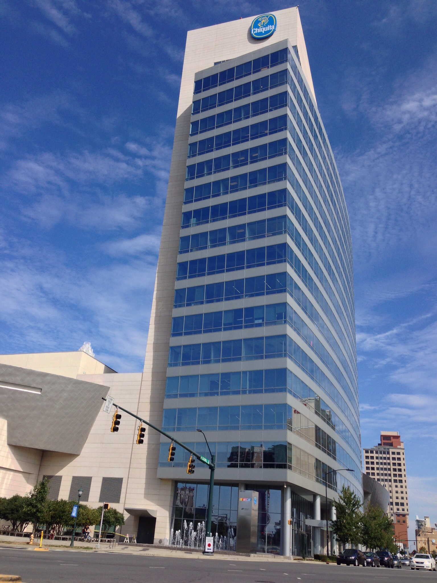 NASCAR Hall of Fame and Corporate Headquarters: Chiquita Brands International, Inc. Charlotte, North Carolina